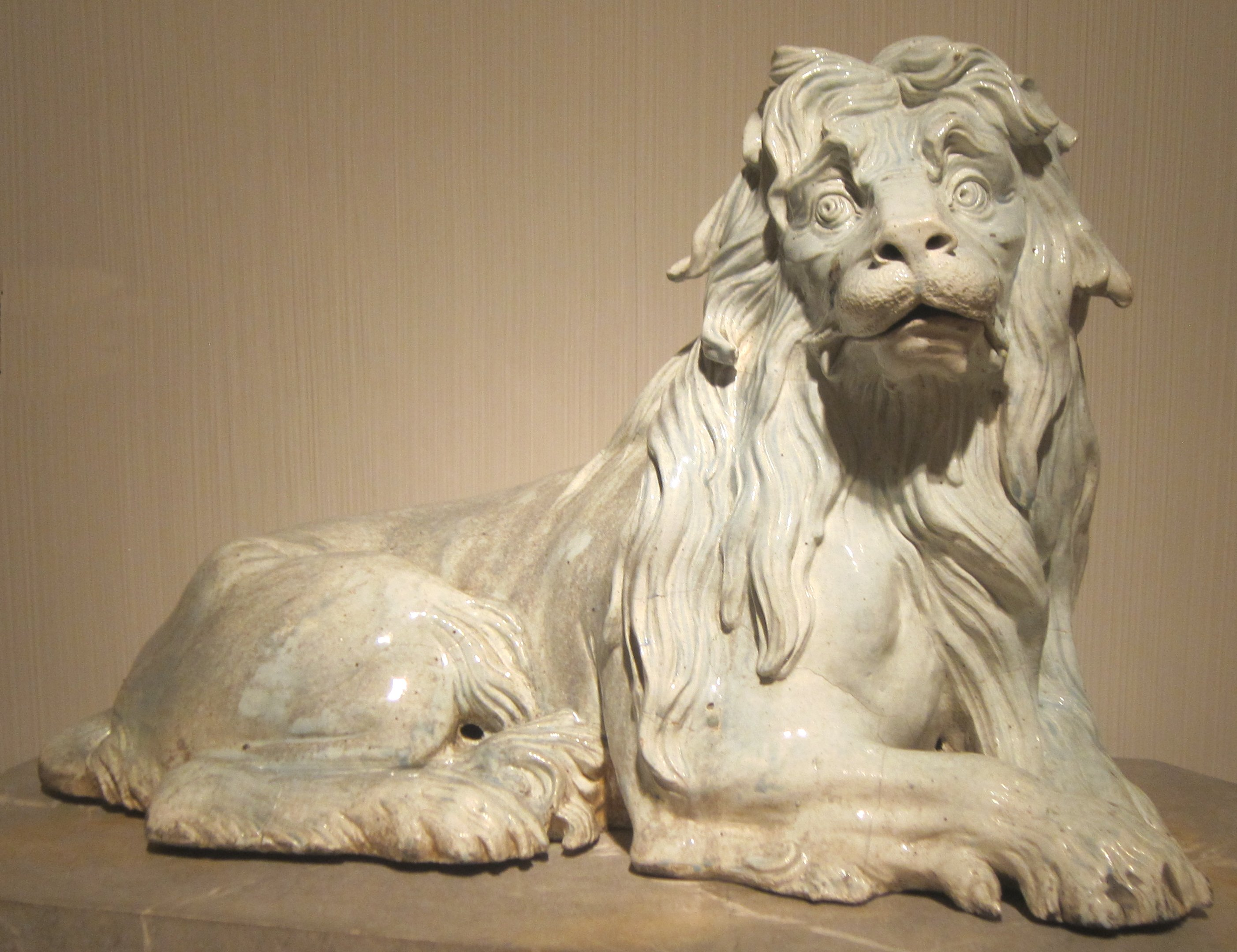 Hard-paste porcelain lion modeled by Johann Gottlieb Kirchner, Meissen, c. 1732-35, Metropolitan Museum of Art, accession 1988.294.1